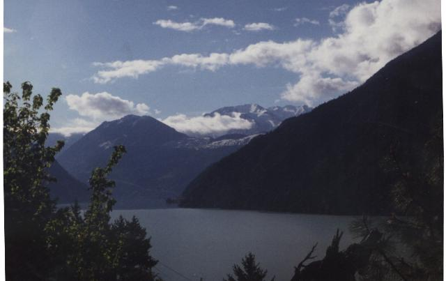 A view of Seton Lake, taken by the poster (dtaw2001) in 1990. Released to public domain.